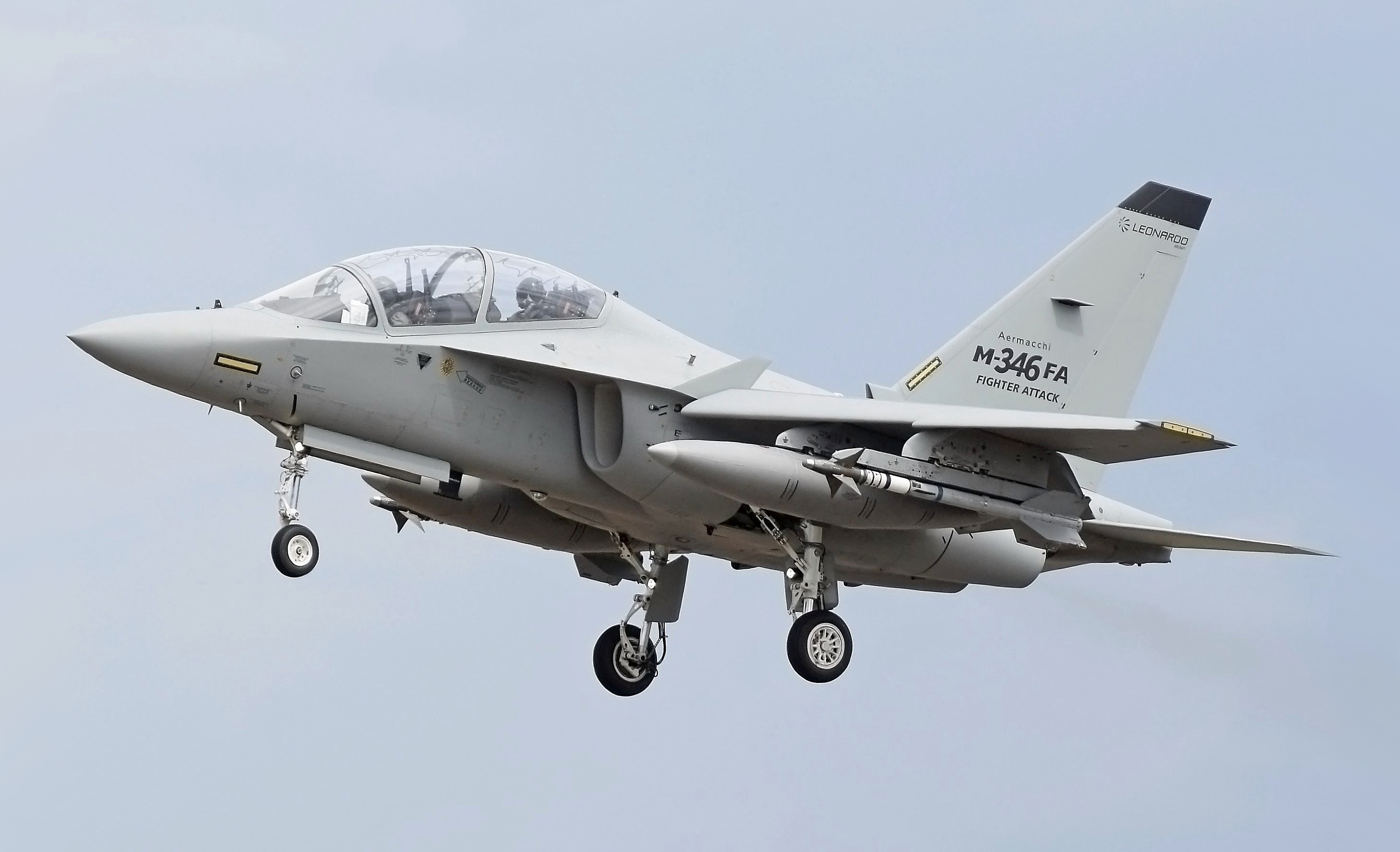 Aermacchi M-346 military trainer (code MT55219) arrives at the 2017 Royal International Air Tattoo, RAF Fairford, England